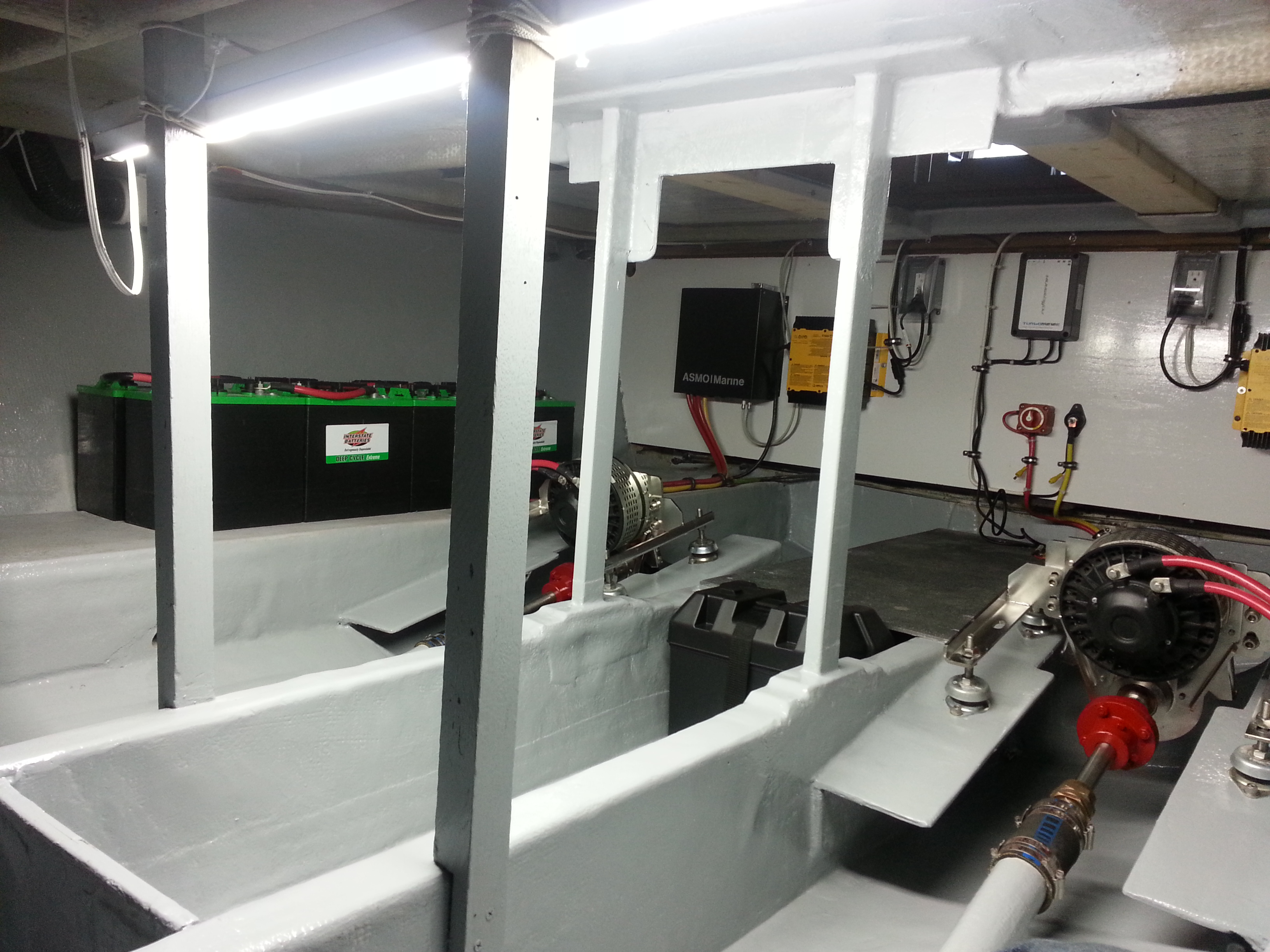 An example of an old idea re-birthed. In 2014, the first electric retrofit of its kind was performed on a 1973 Tollycraft 30' Sedan Cruiser. The vessel was originally powered by two (2) Chrysler 318 V8's accompanied by two (2) 80 gallon fuel tanks. The conversion took place in Vancouver, Canada and the vessel is now powered by two 9kW LMC motors with energy supplied by 16, Interstate deep-cycle 6Volt batteries. Maximum Endurance 13hrs. Maximum Speed 10 knots.